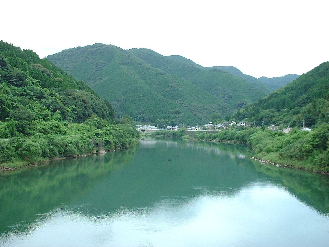 View of Kuma River in Japan.